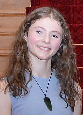 Thomasin McKenzie, at a dinner at Government House, Wellington, on 19 September 2018, to celebrate the 125th anniversary of women's suffrage in New Zealand